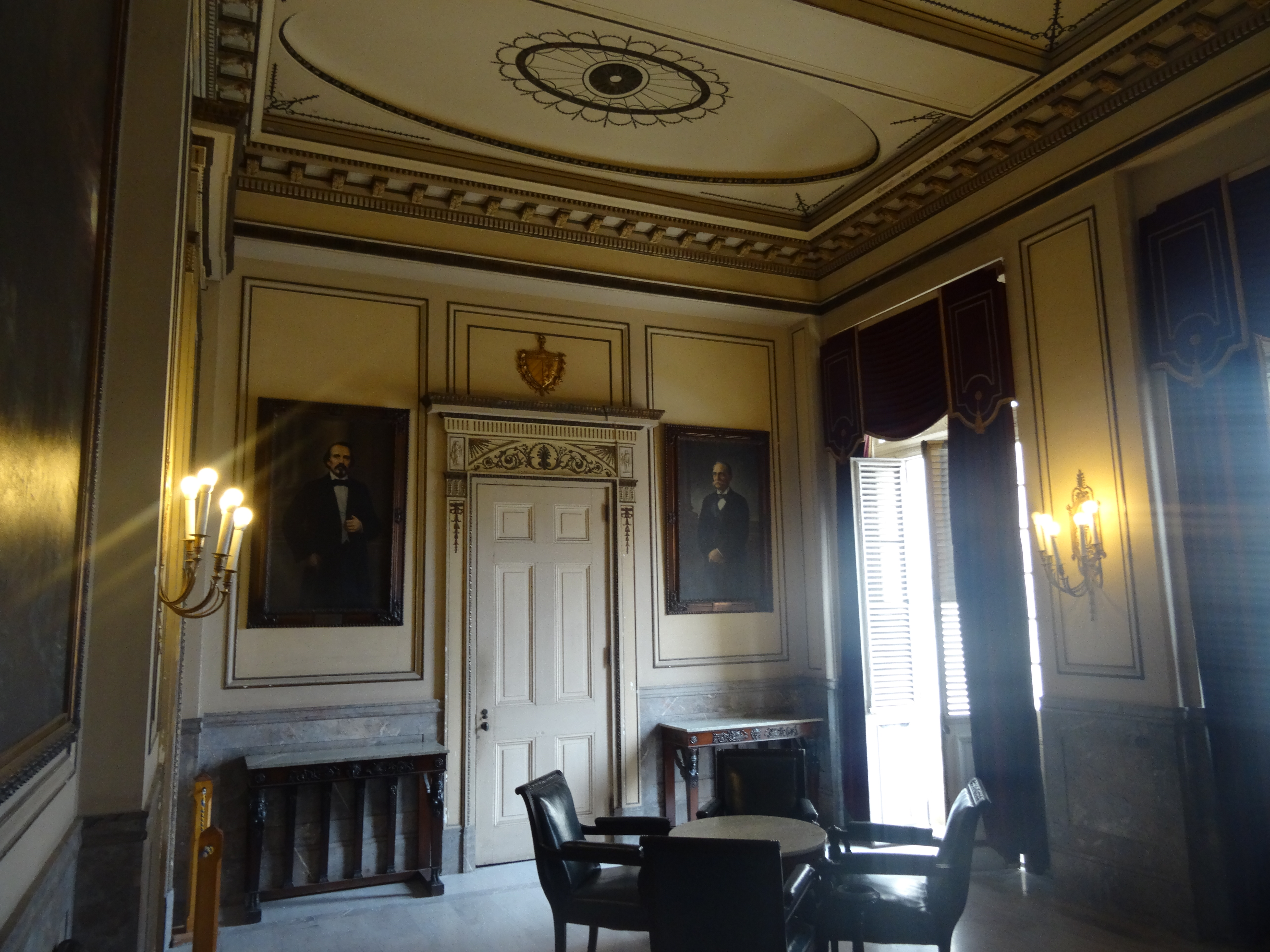 The Presidential Cabinet in Museo de la Revolución in Havana, Cuba